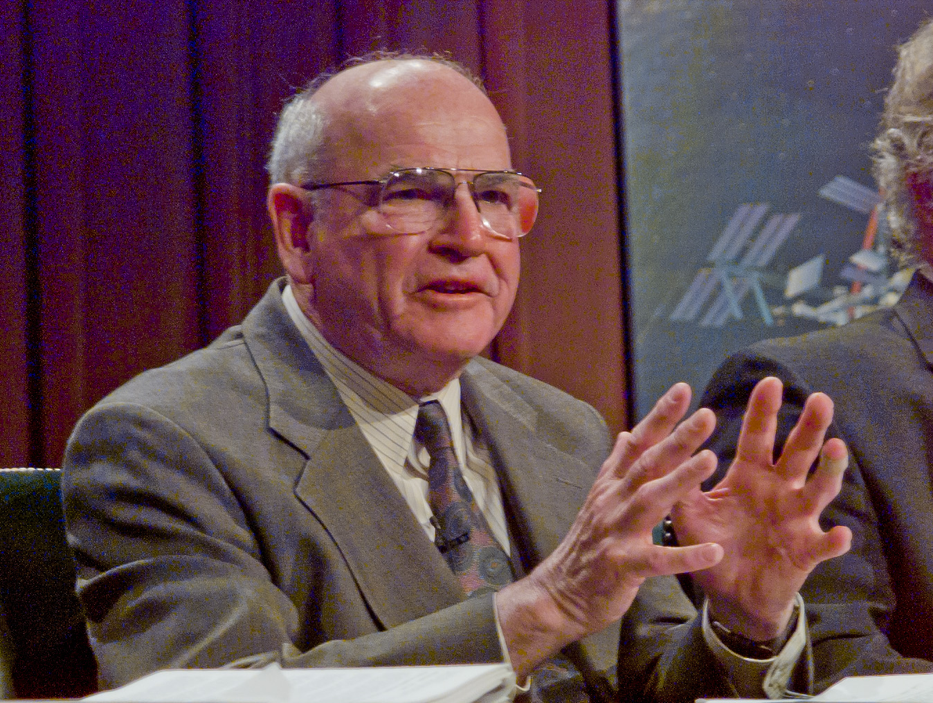 Dr. Baruch Blumberg was introduced as the first director of the NASA Astrobiology Institute during a press conference held at NASA's Ames Research Center in May 1999.